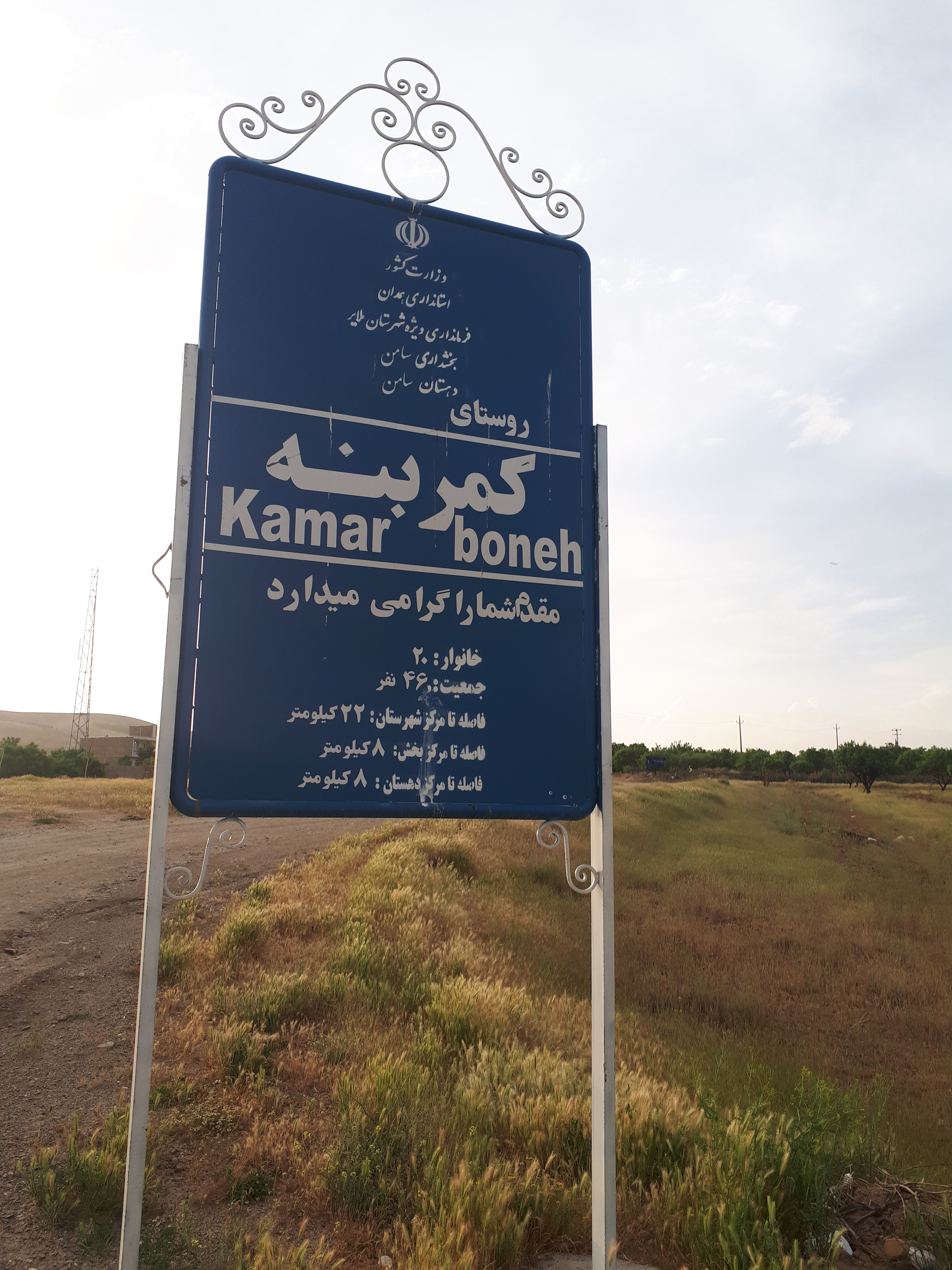 Village photo